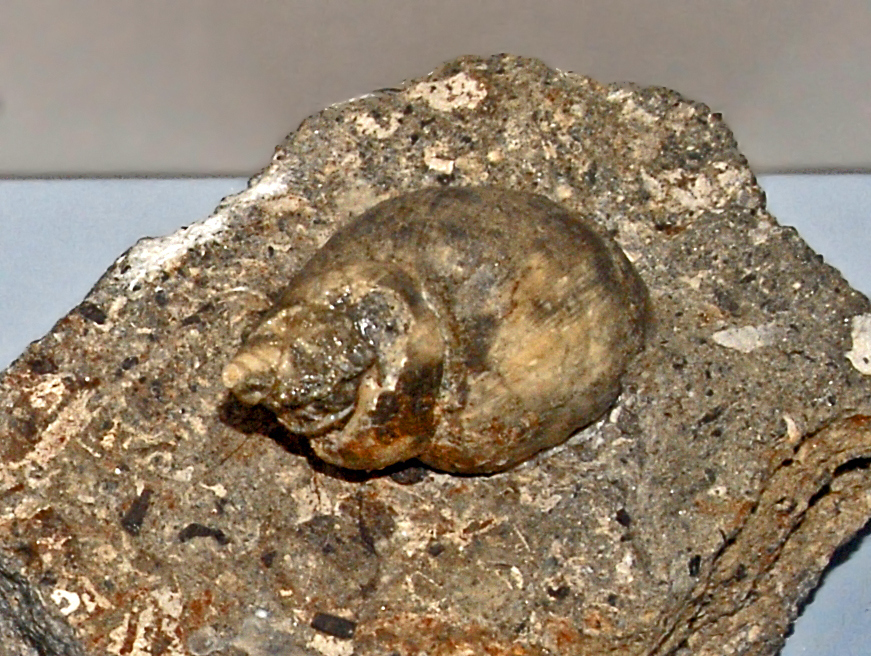 Fossil shell of Crommium ferrugineum, on display at the Museo Paleontologico Giulio Maini, Ovada